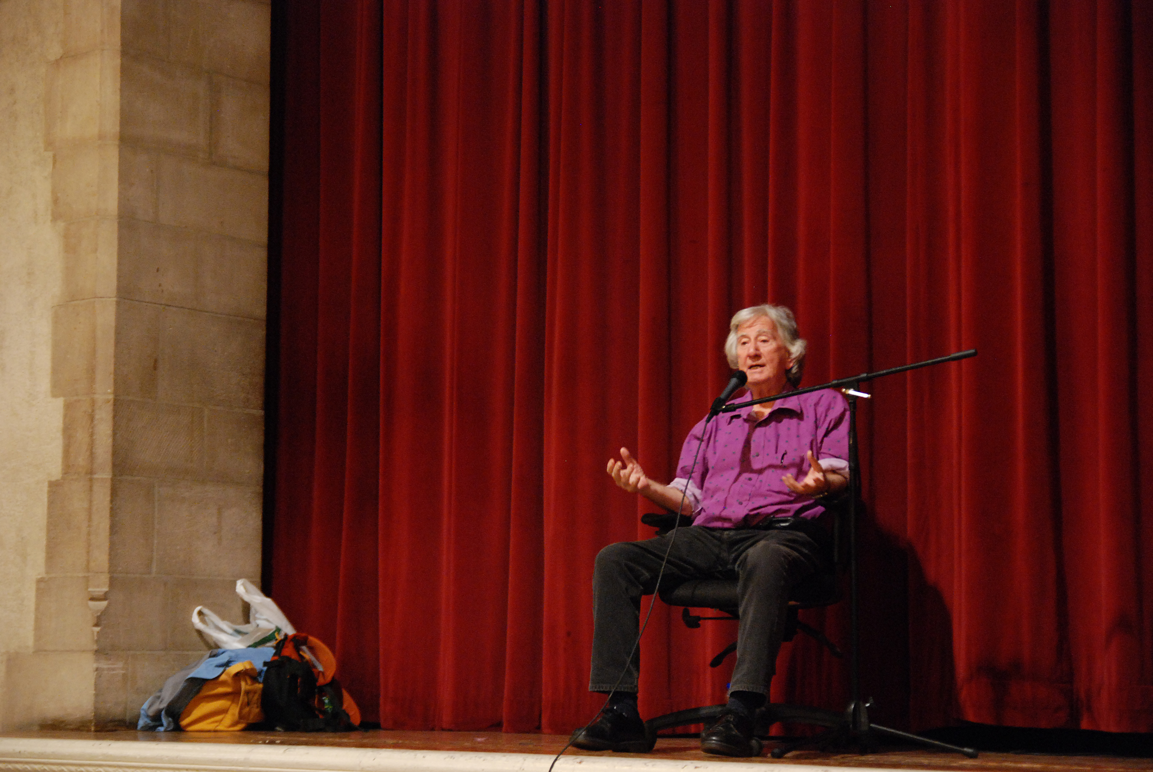 Brazilian theater director and writer Augusto Boal presenting his Theater of the Oppressed at Riverside Church in New York City.